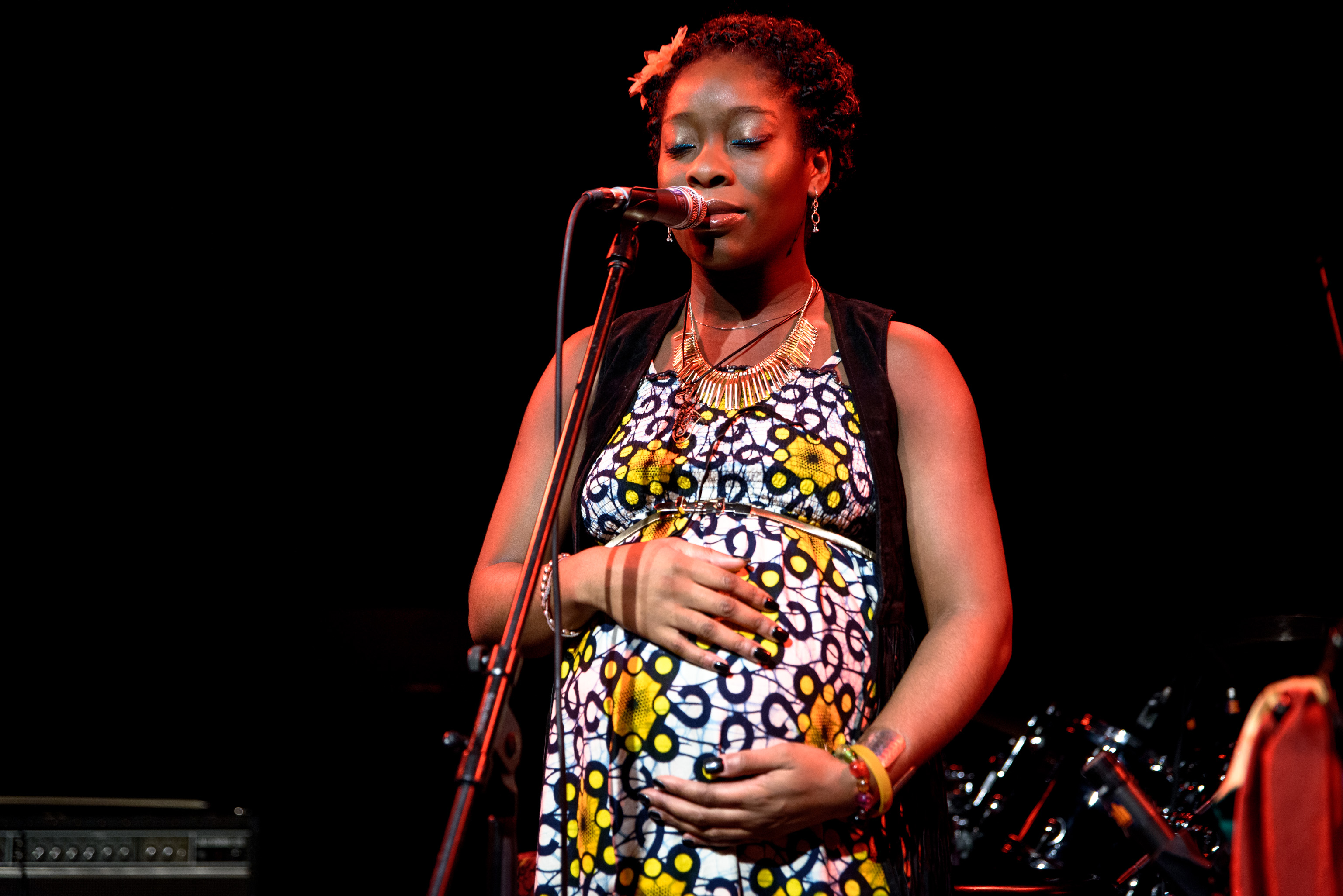 IYEOKA in Munich 2015